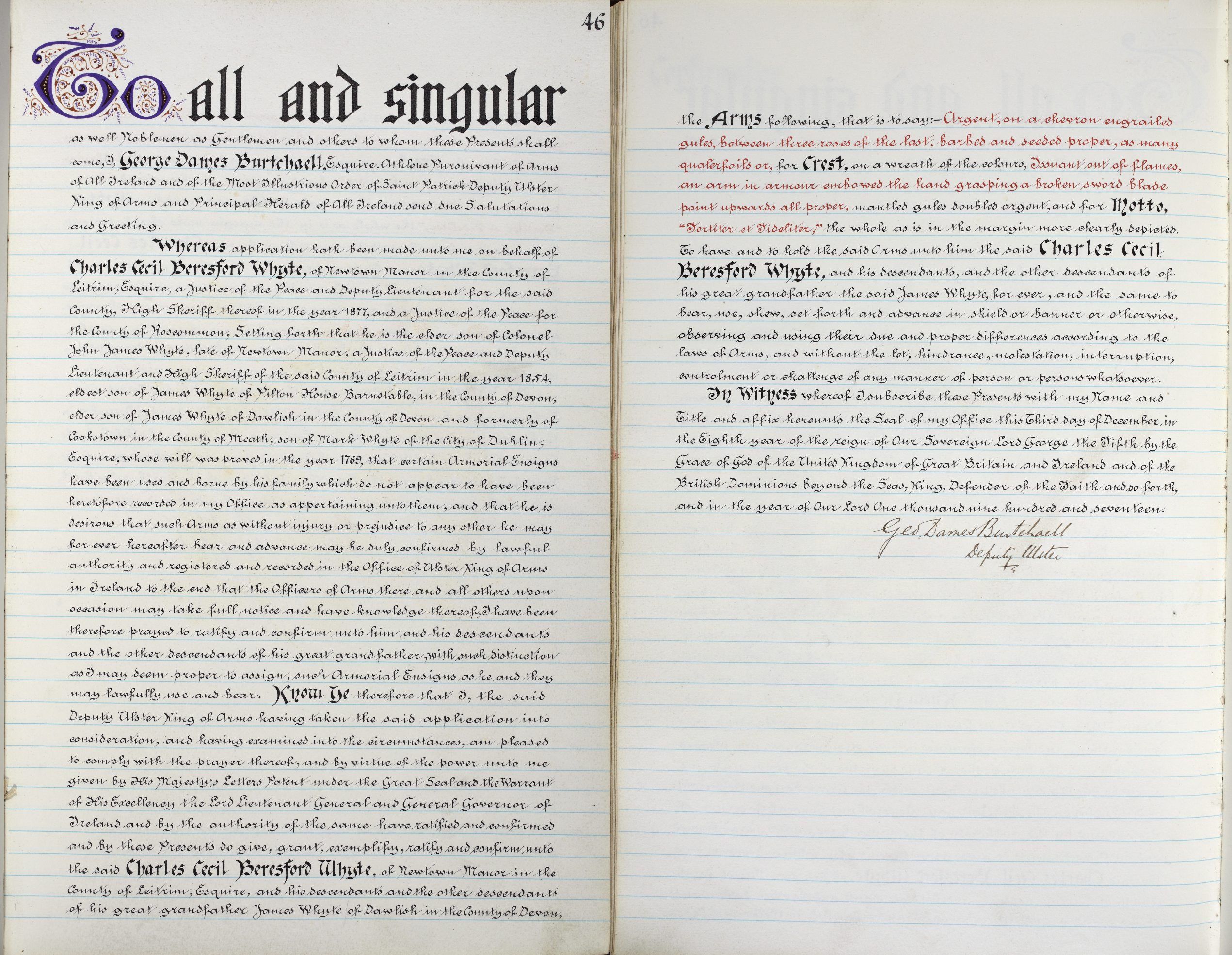 Copy of confirmation of arms of the descendants of James Whyte of Dawlish, Co. Devon and formerly of Cookstown, Co. Meath, son of Mark Whyte of City of Dublin and to the great grandson of the said James being Charles Cecil Beresford Whyte, elder son of Col. John James Whyte, both of Newtown Manor, Co. Leitrim, son of James Whyte of Barnstable, Co. Devon, Dec. 3, 1917. Arms of Whyte of Newtown Manor, Country Leitrim, Ireland: Argent, on a chevron engrailed gules between three roses of the last barbed and seeded proper as many quatrefoils or. Confirmed in 1917 by George Dames Burtchaell (d.1921), Athlone Pursuivant of Arms of all Ireland, Deputy Ulster King of Arms and Principal Herald of all Ireland. Confirmed to him and to all descendants of his great-grandfather James I Whyte of Dawlish in Devon and formerly of Cookstown, County Meath, Ireland (son of Mark Whyte of Dublin)